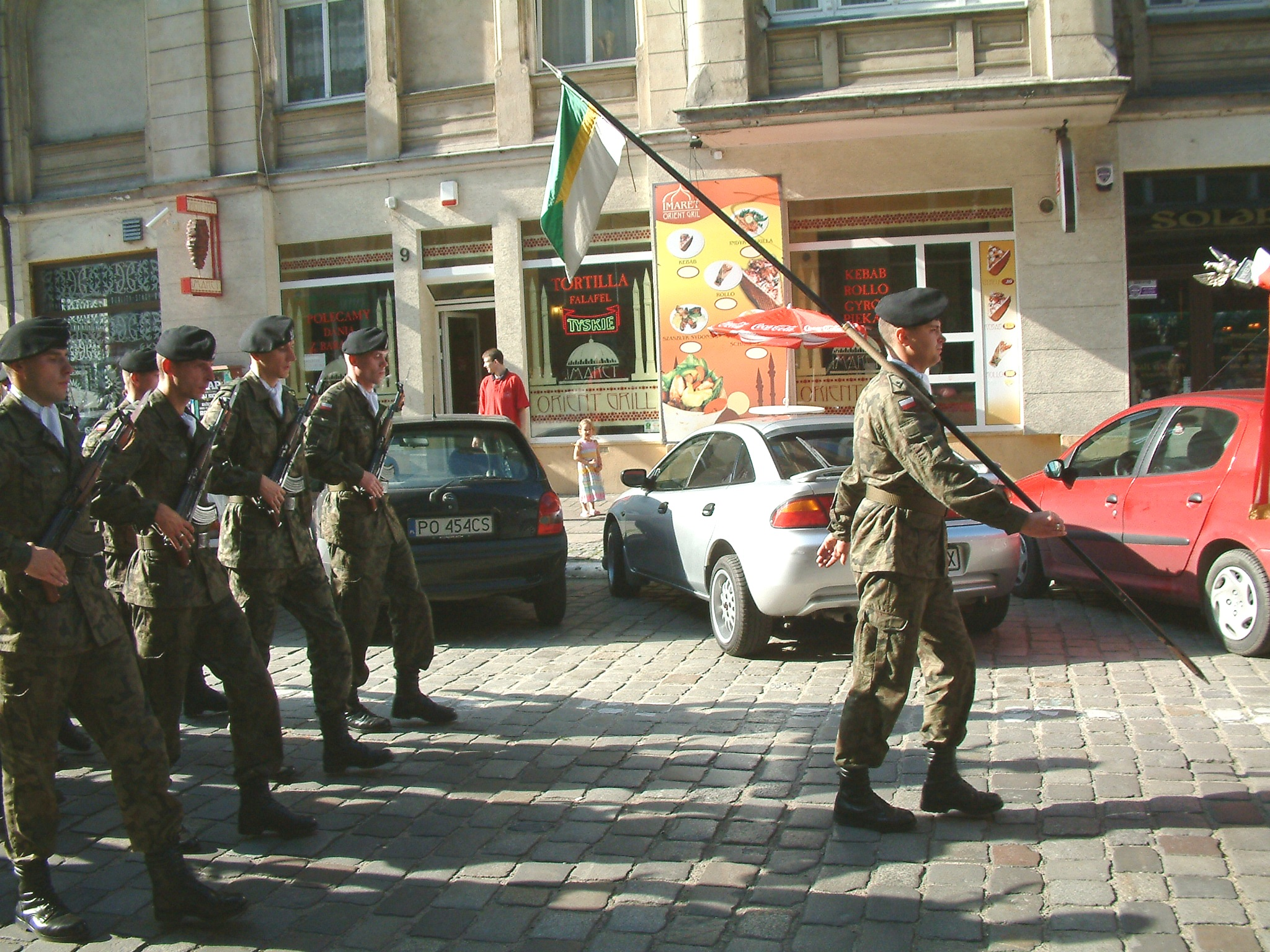 Soliders of Mechanized Battalion of 15th Greater Poland Armoured Cavalry Brig. - continuators ot traditions of 7th Mounted Shooters Reg.